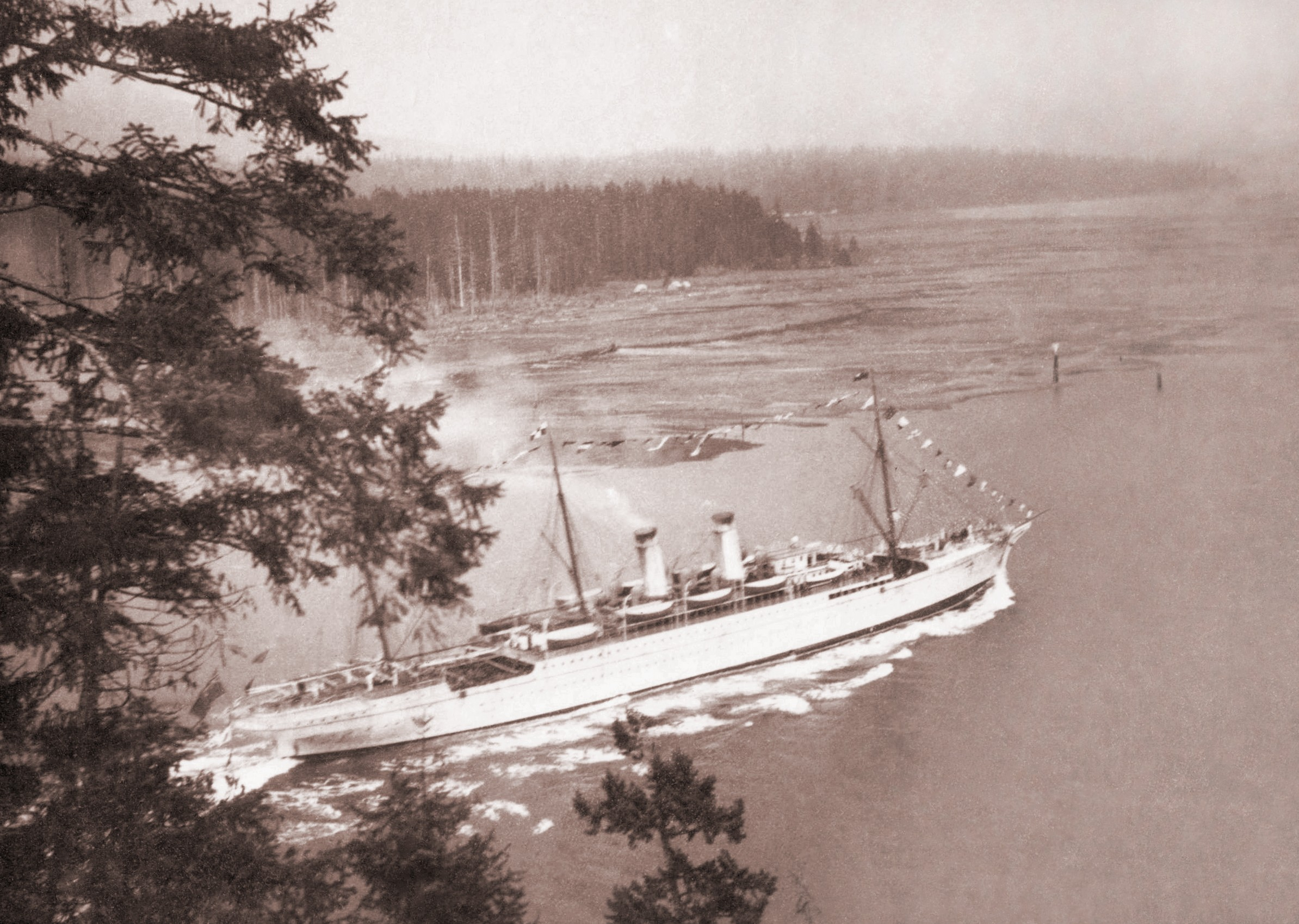 "Empress of India" passing through First Narrows of Burrard inlet into Vancouver harbour.